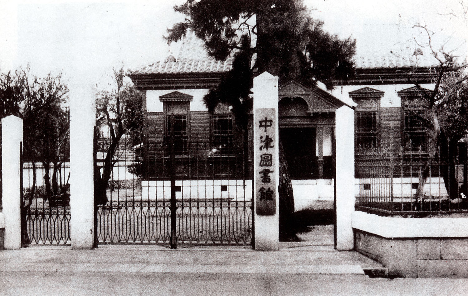 Photograph of Nakatsu Library (later: Obata Memorial Library 小幡記念図書館), established by Obata Tokujirō (1842-1905), one of the leading modernizers in Meiji-Japan. Obata donated half of his immense book collection and his real estate in Nakatsu.